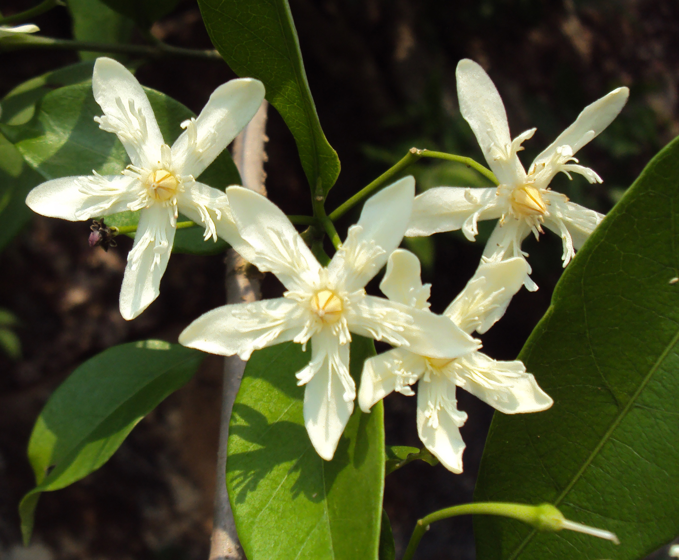 Wrightia tinctoria